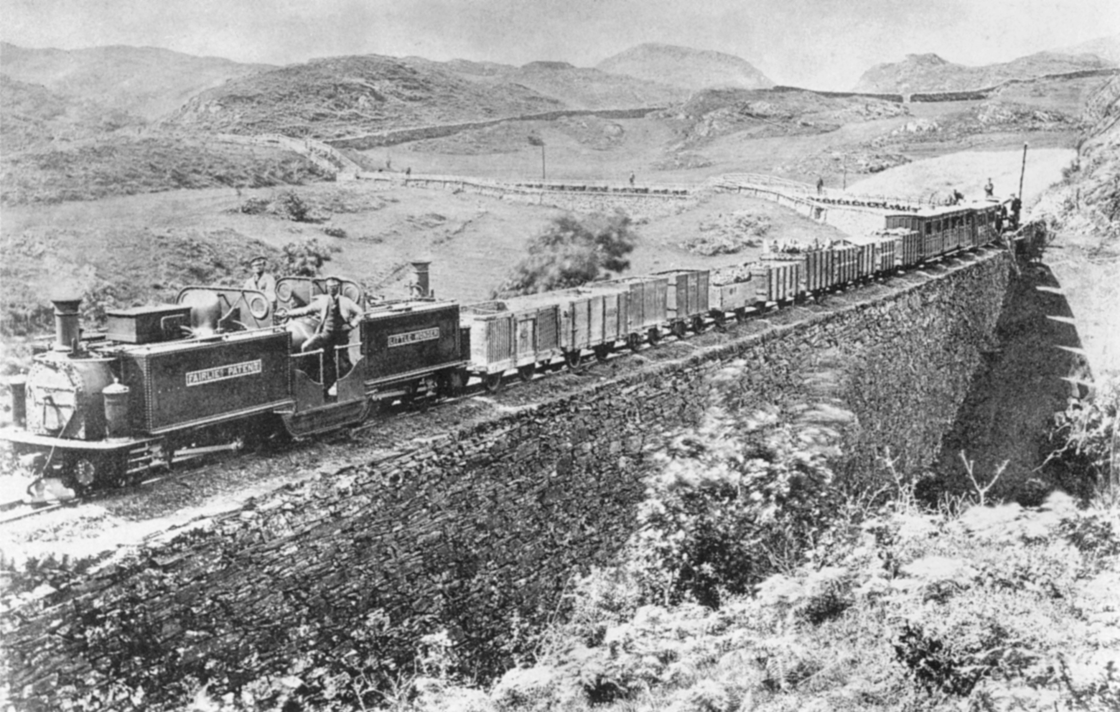 Festiniog Railway's first double Fairlie locomotive "Little Wonder" with long mixed train - consisting of loaded goods wagons, passenger carriages, and empty slate wagons - rounds Cei Mawr.